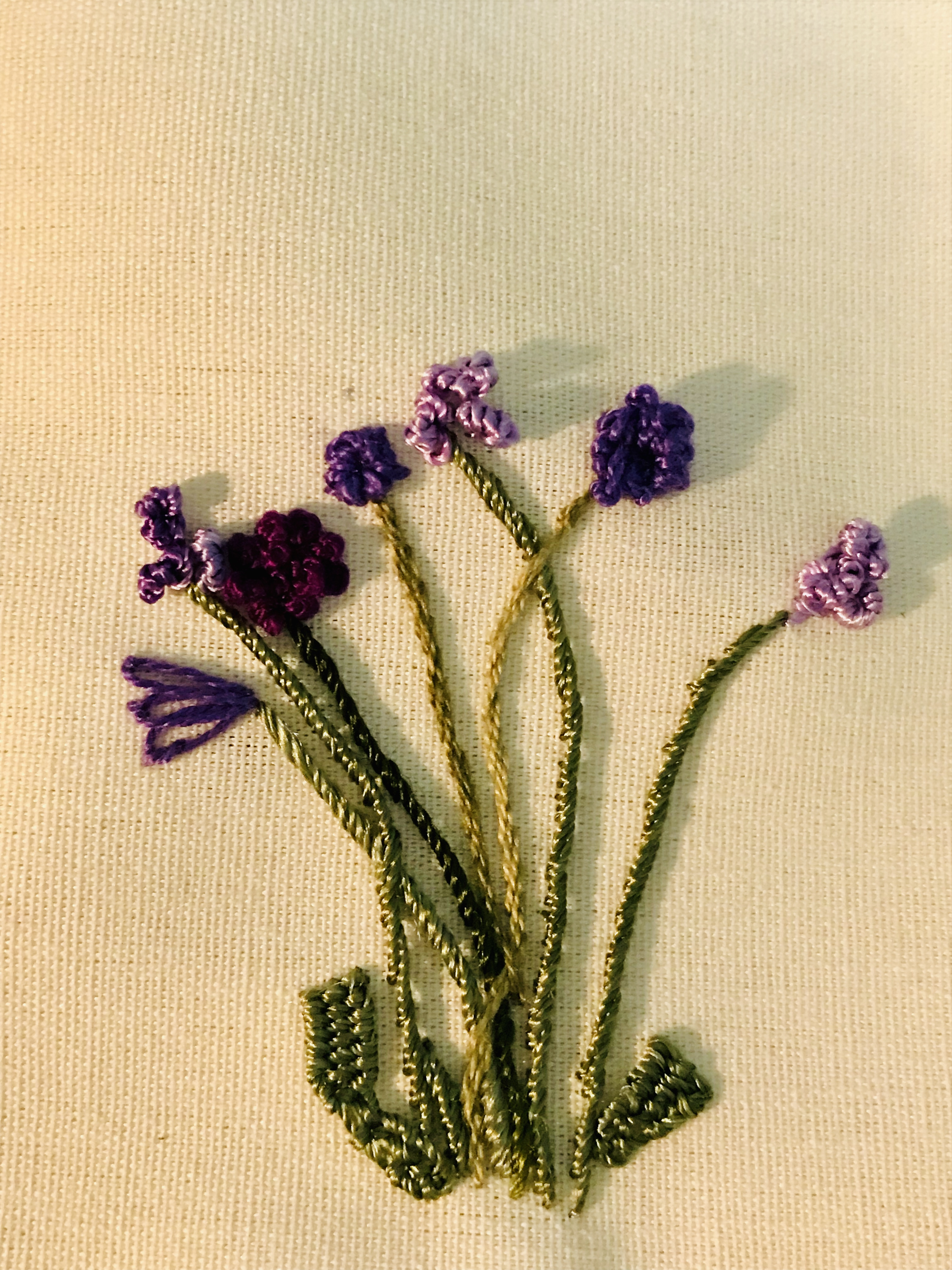 Basic flowers made with EdMar rayon thread.